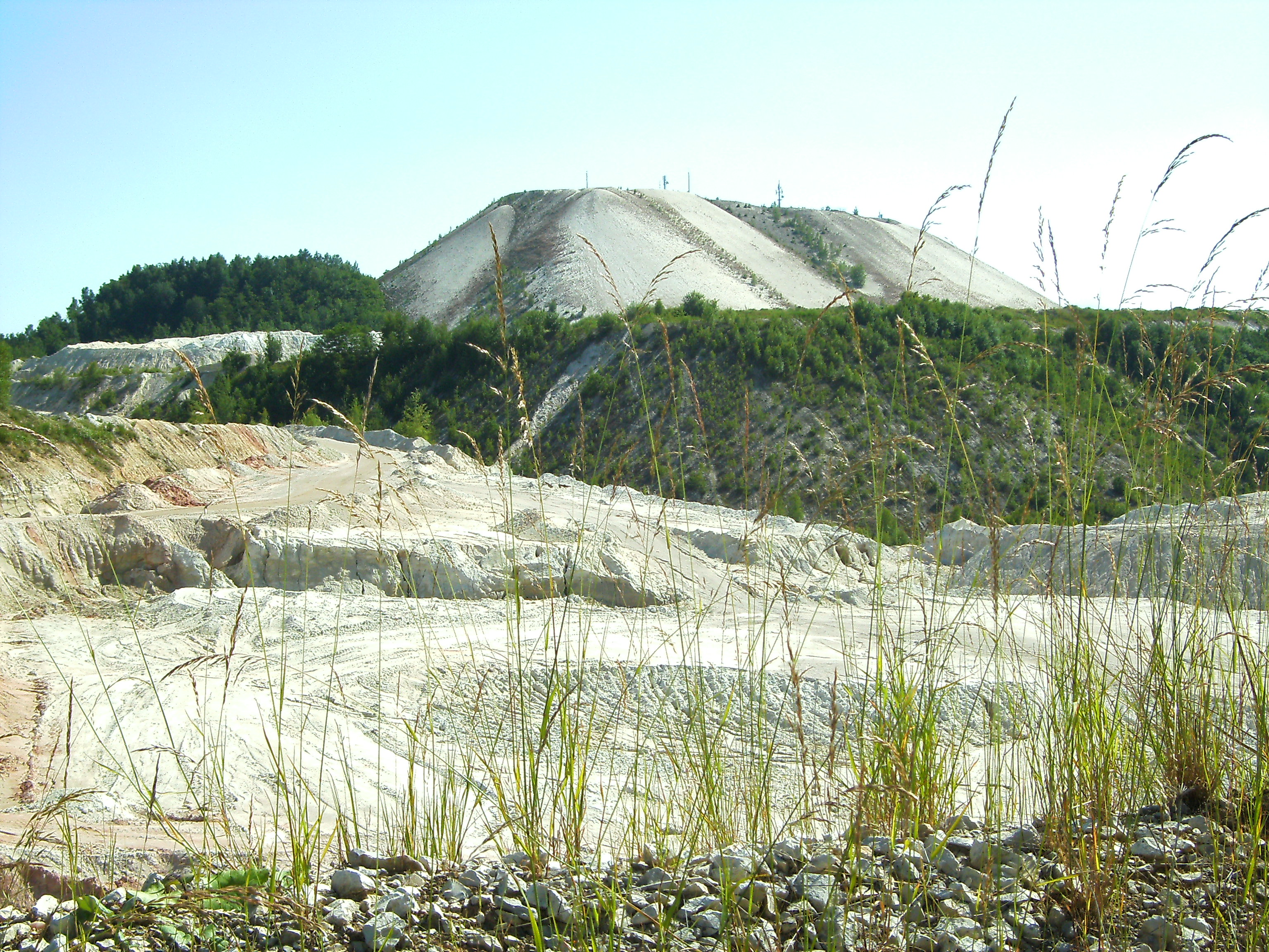 Monte Kaolino